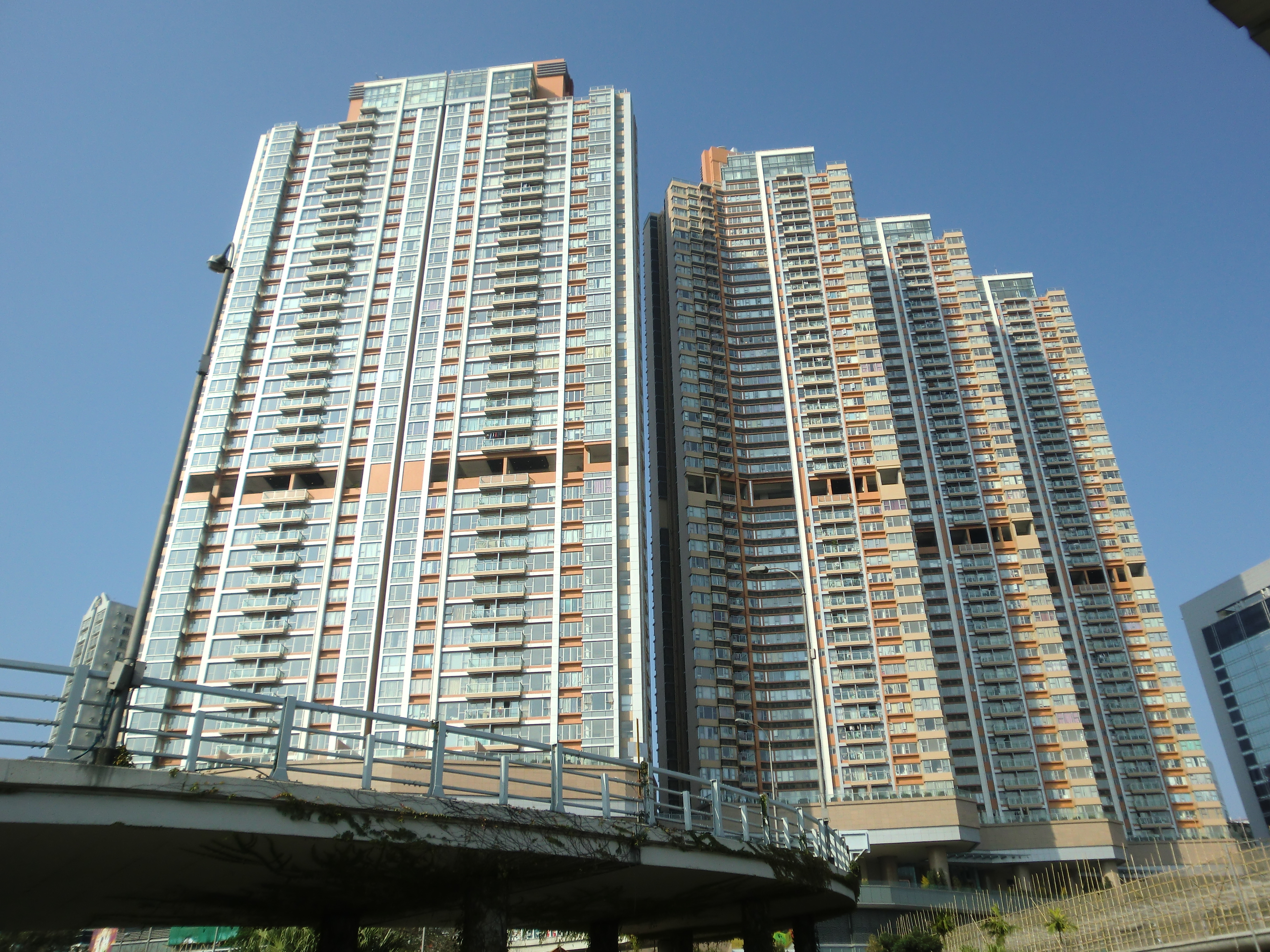 Prince Edward Road East, The Latitude